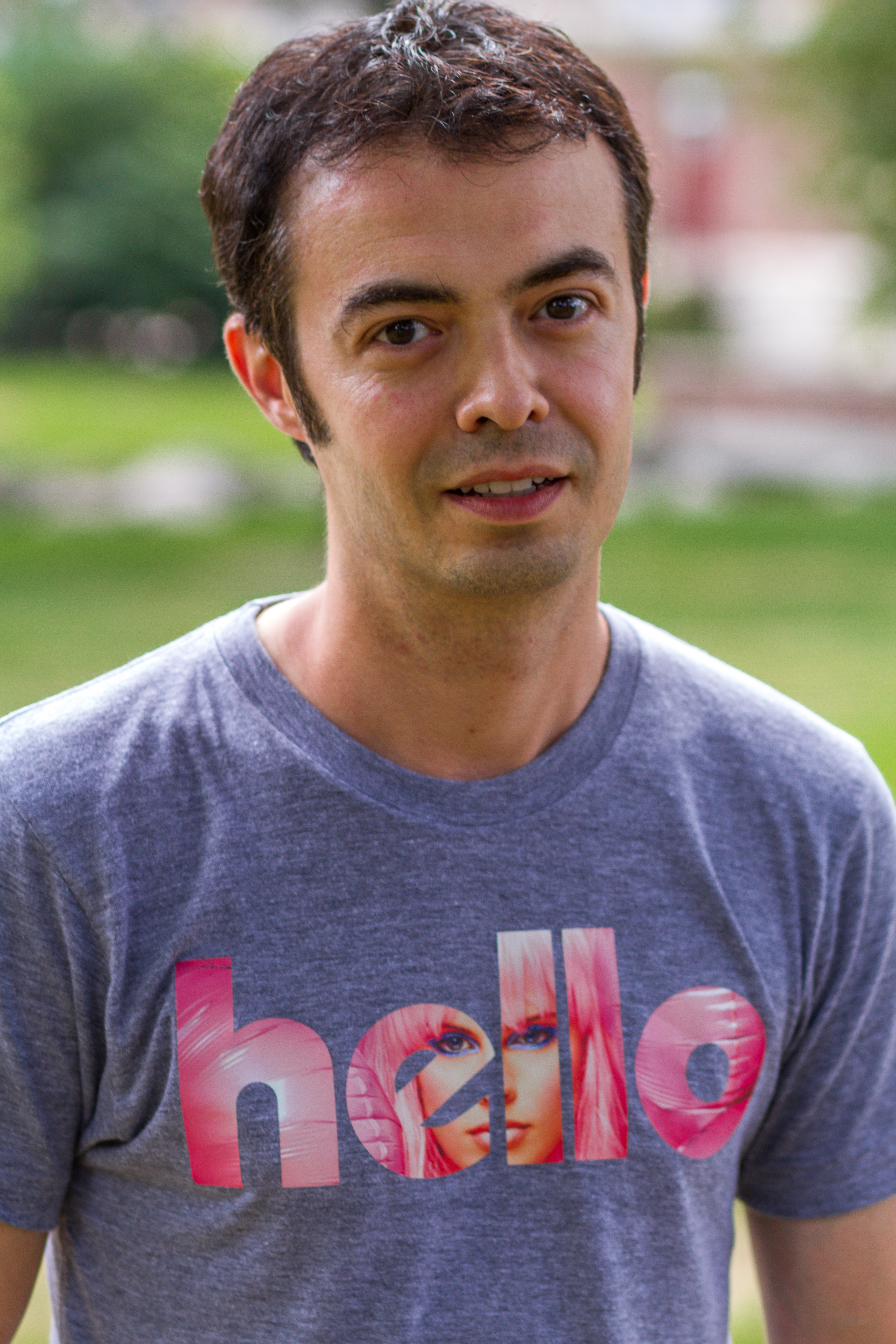 Orkut Büyükkökten promoting his newly launch app "hello" at the University of Missouri